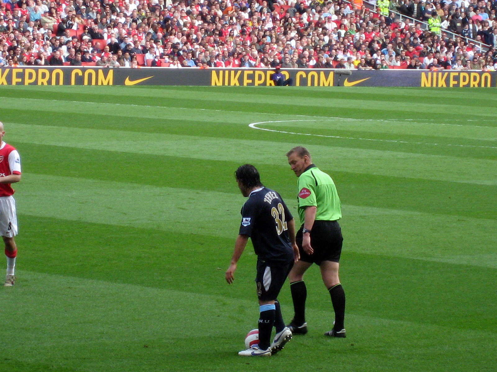 Carlos Tévez (left) in action for West Ham in a match against Arsenal